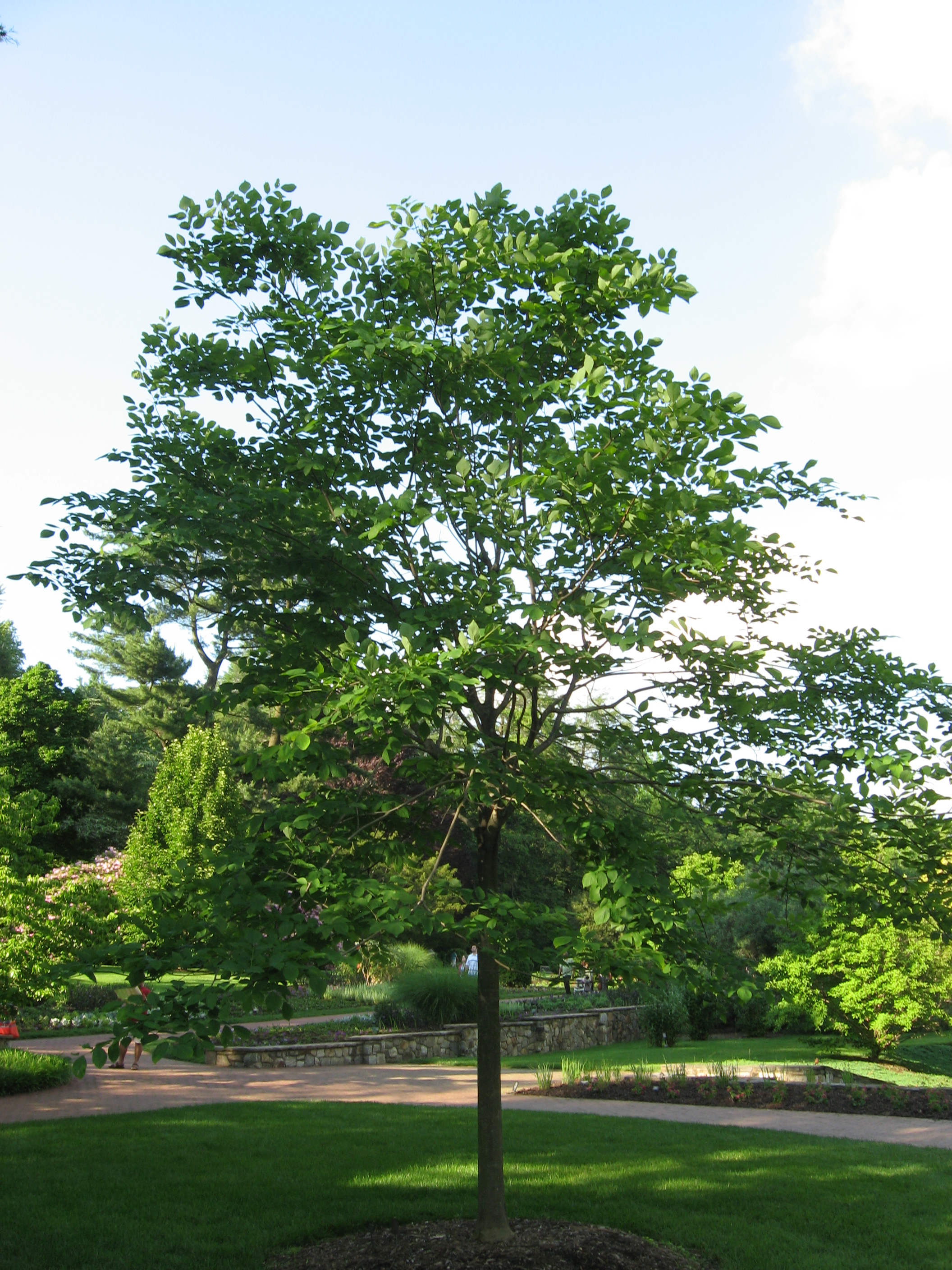 A picture of Cladrastis kentukea.